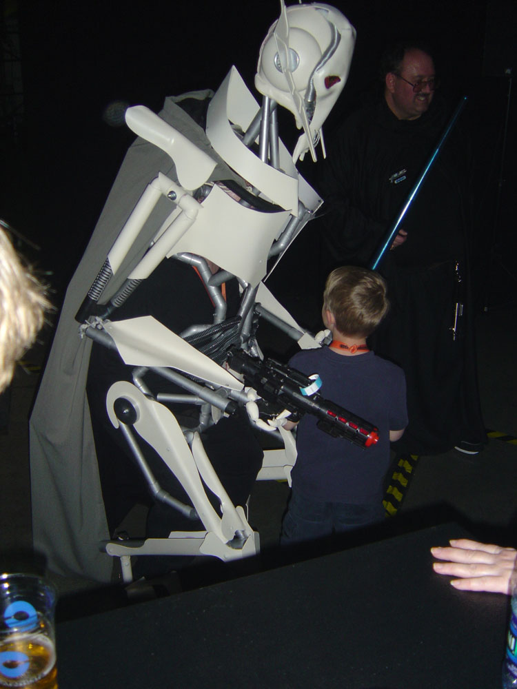 General Grievous at the Celebration party